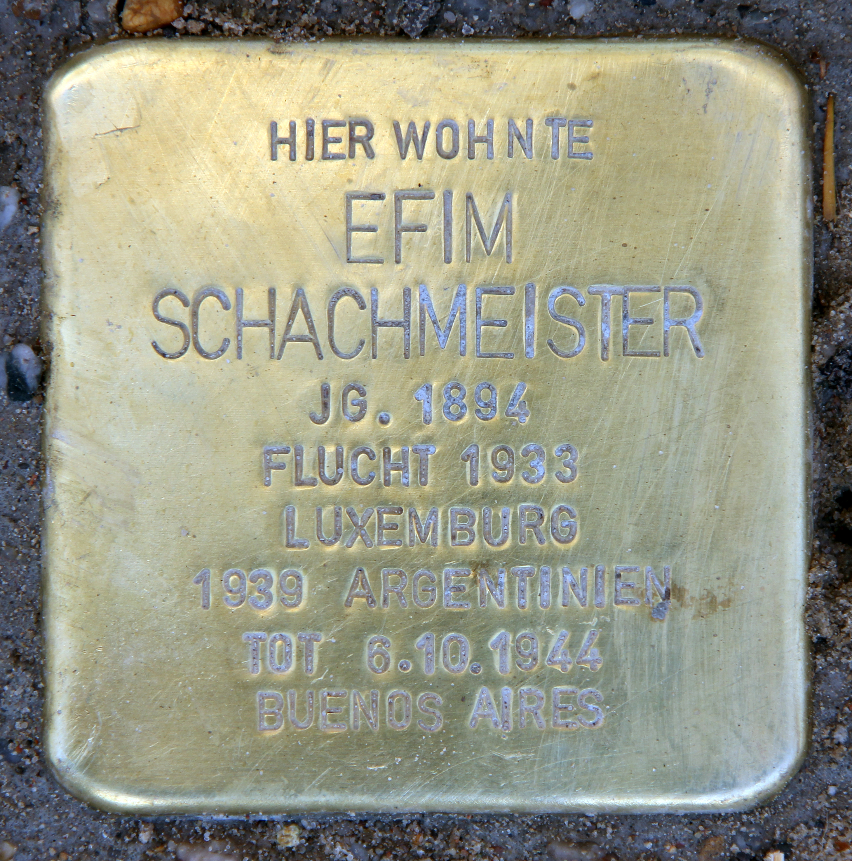 "Stolperstein" (stumbling block), Efim Schachmeister, Hauptstraße 5, Berlin-Schöneberg, Germany